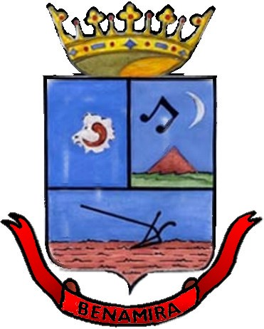 Badge of Benamira